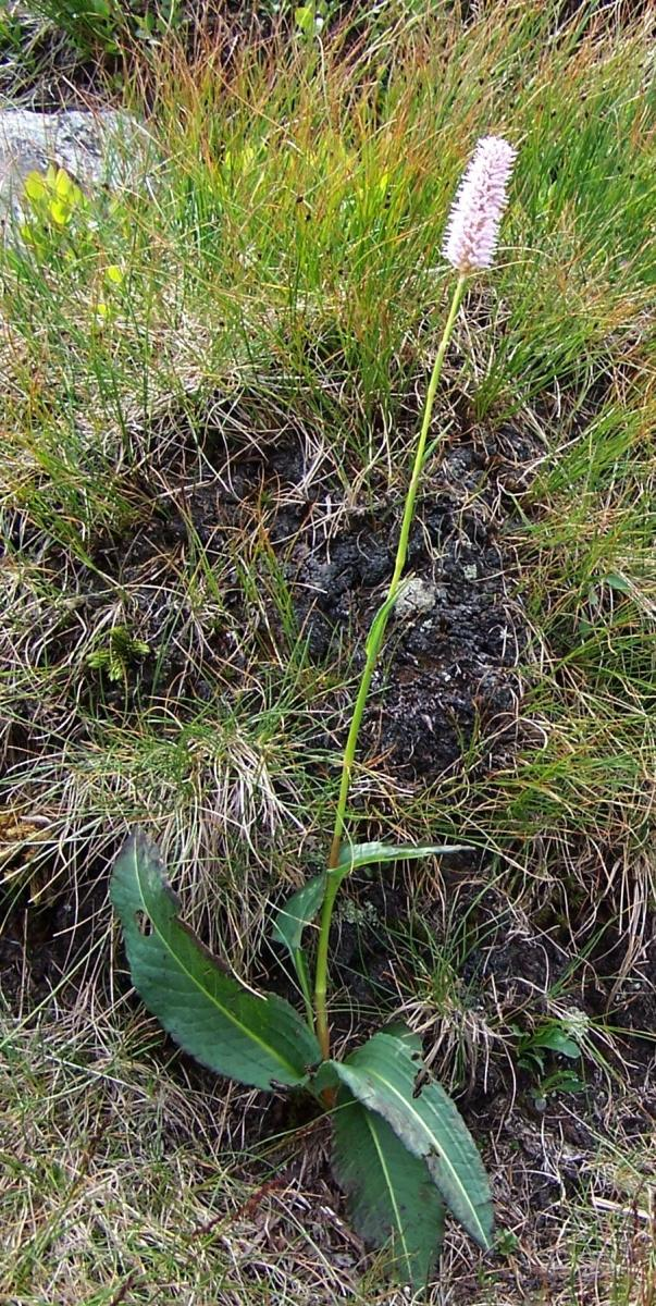 Polygonum bistorta (pl. rdest wężownik), habitat: Tatra Mountains, Kondratowy Wierch